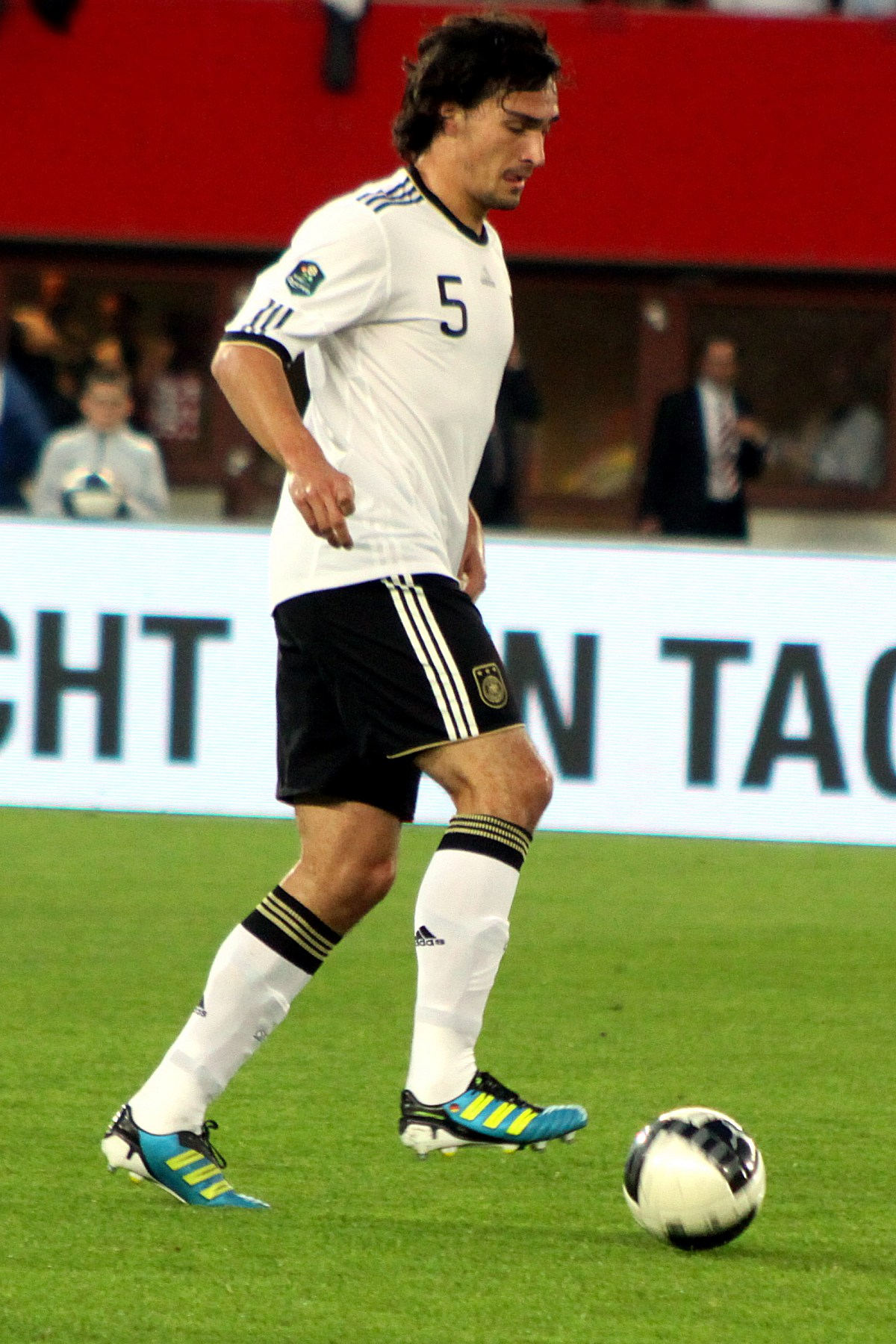 Mats Hummels (Borussia Dortmund), german national football team